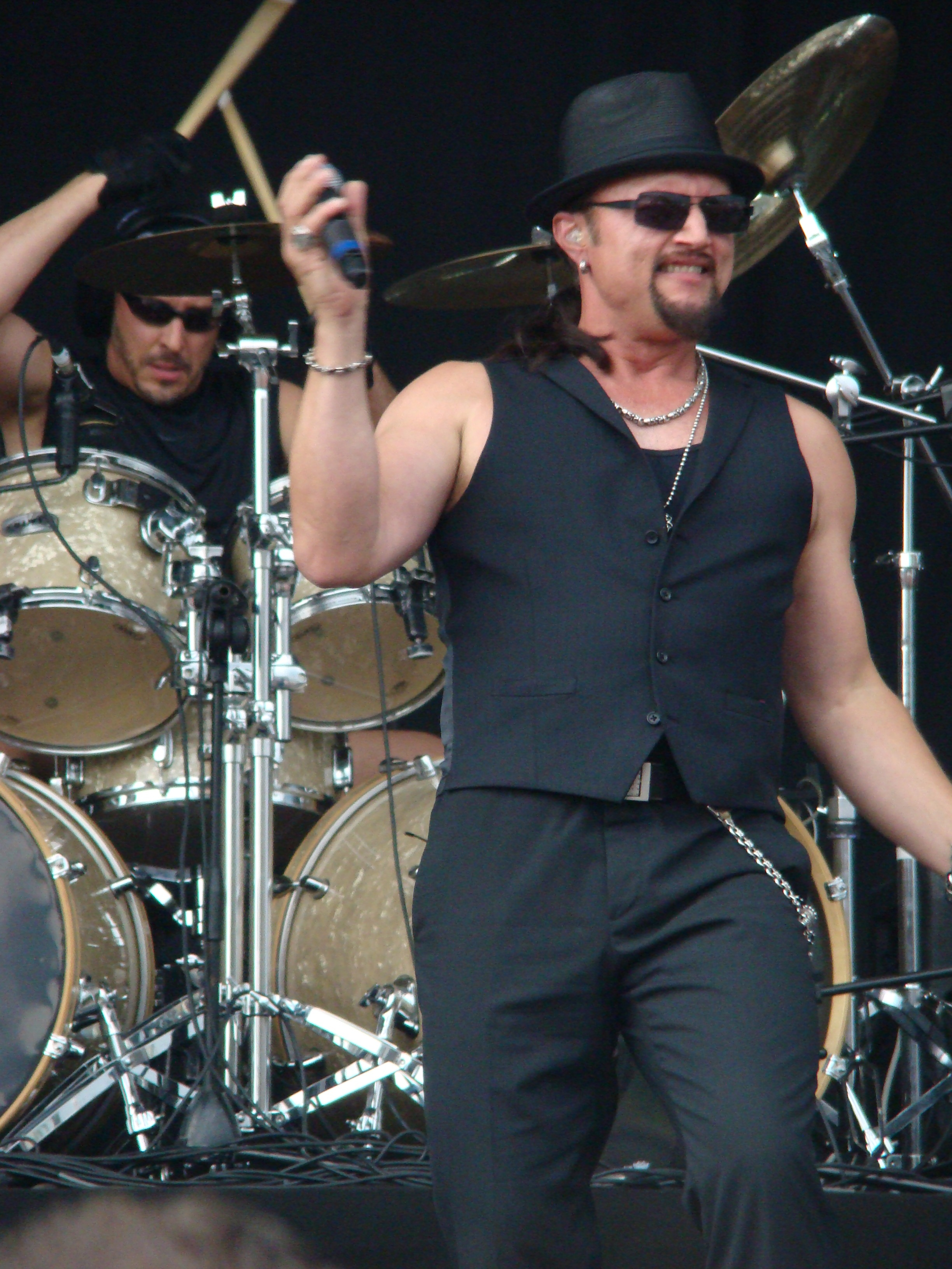 Rockenfield (l) and Tate (r) from Queensryche